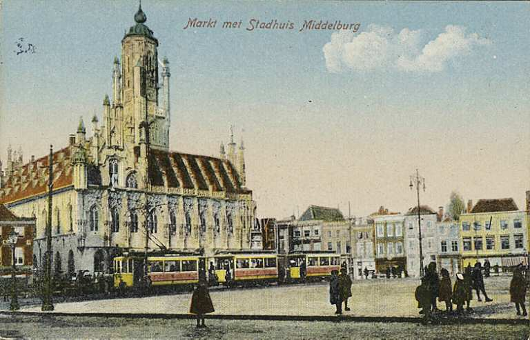 The town hall of Middelburg, The Netherlands and the steam tram (1905 - 1915).